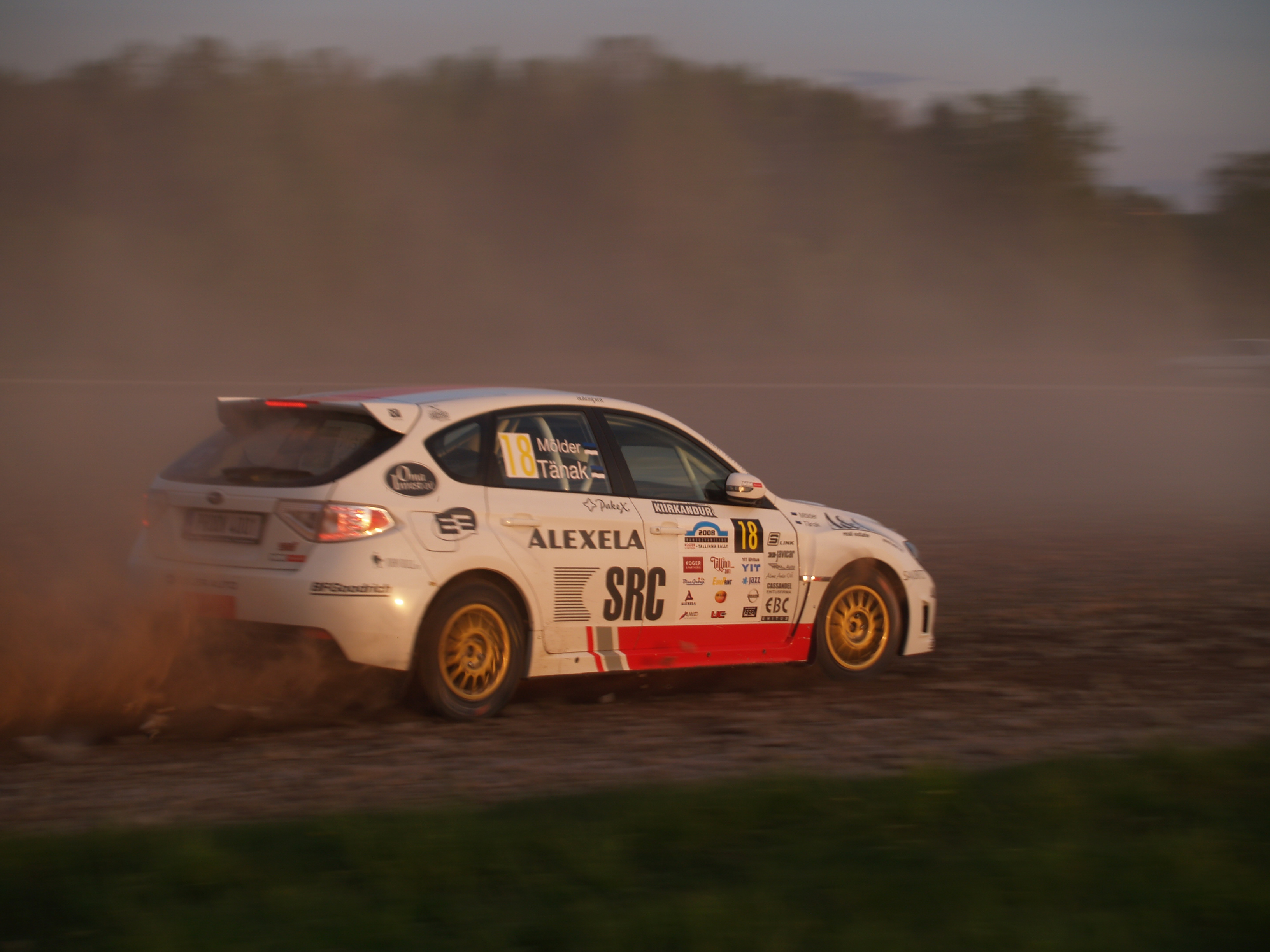 Ott Tänak and Raigo Mõlder in Tallinna Rally Sõmeru stage (5,43 km) at 2008. They won that stage but in overall they finished 3rd.